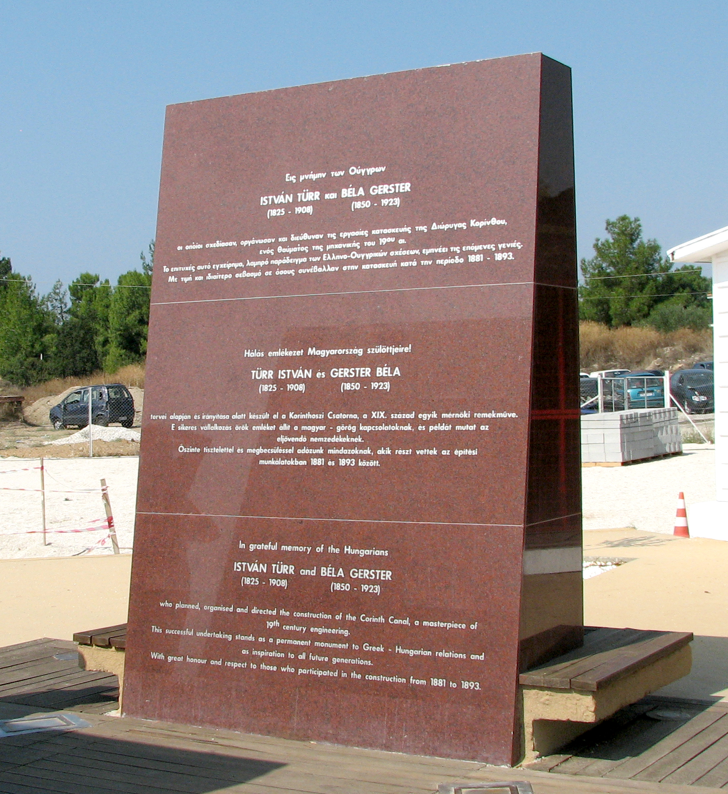 Front of the Monument at the Corinth Canal remembering the architects.